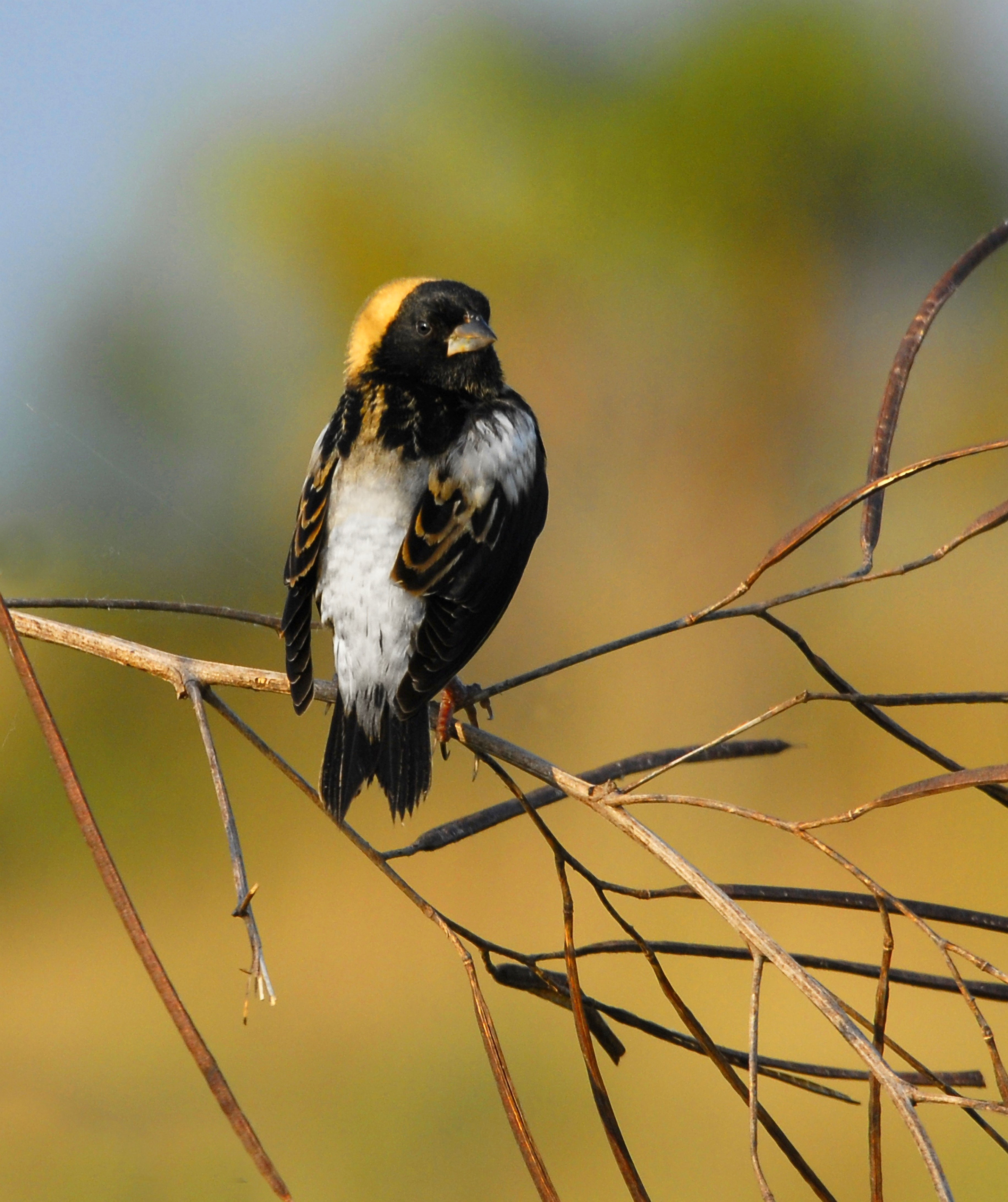 Bobolink at Lake Woodruff (Dolichonyx oryzivorus)